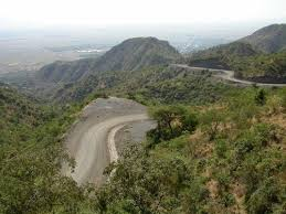 Road of Alamata to Mekele